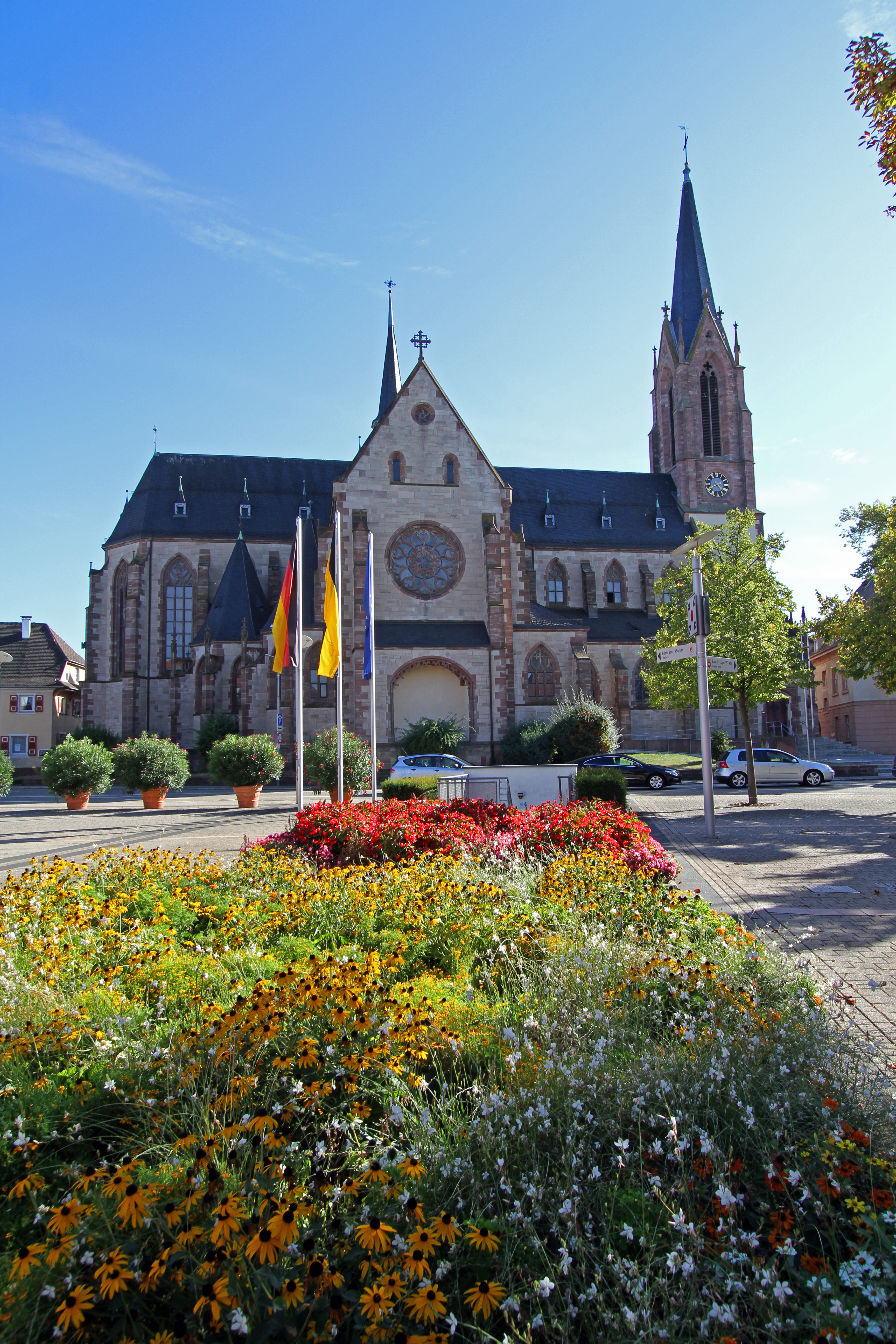 Church of Saint Sebastian in Kuppenheim.